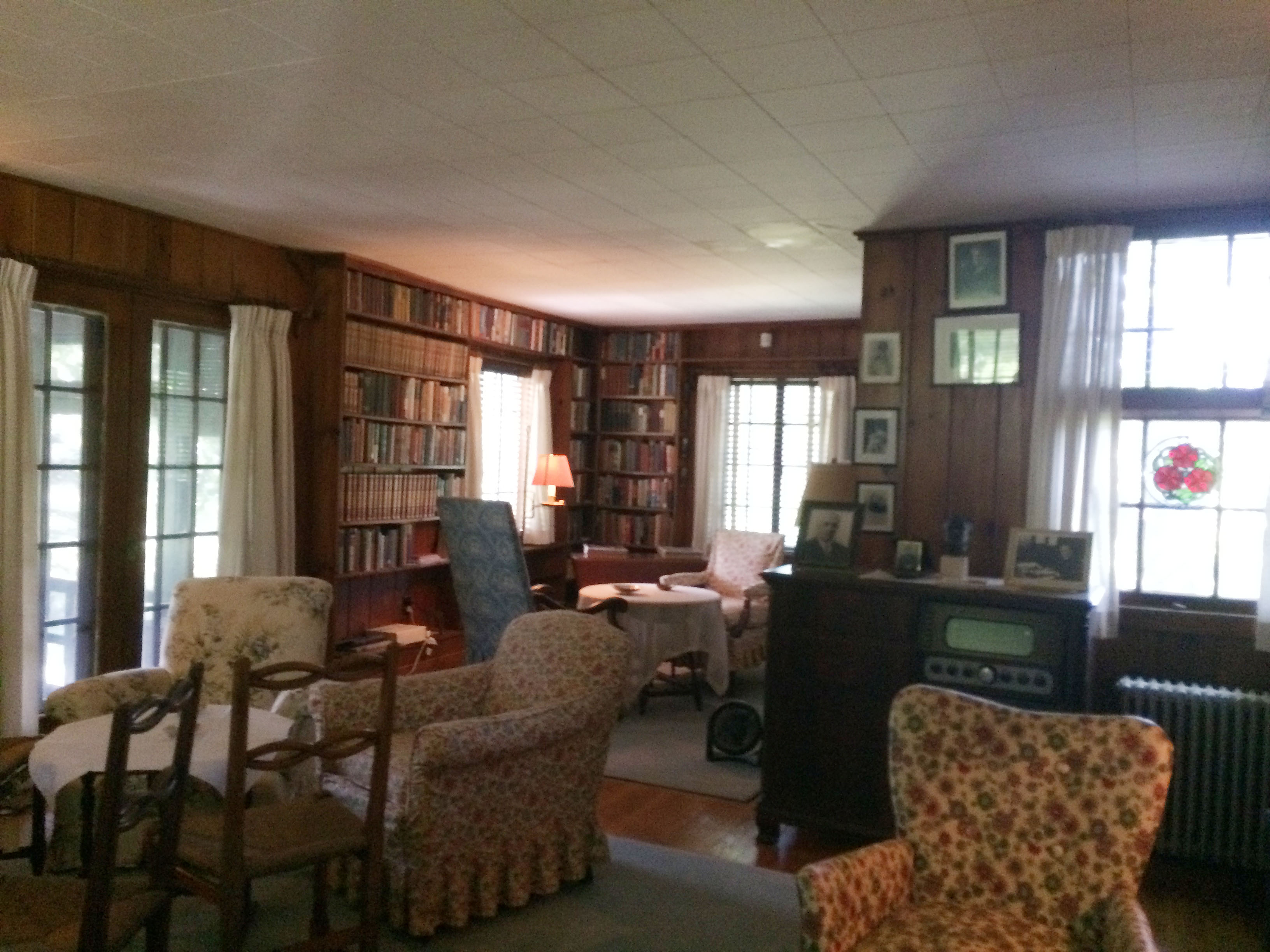 Living Room in Stone Cottage at Val-Kill, Eleanor Roosevelt National Historic Site, Hyde Park, New York.